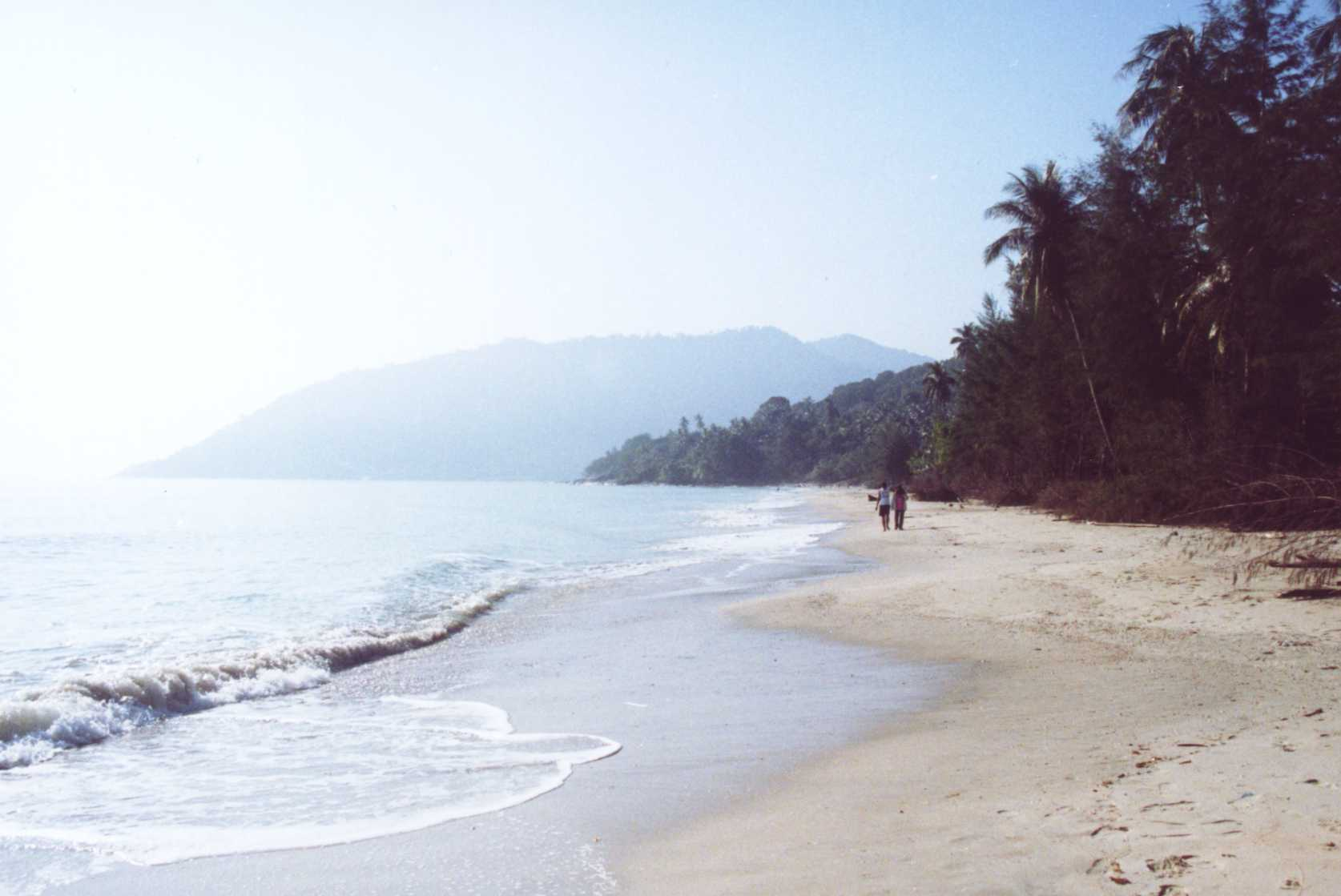 Nai Plao Beach, Khanom district, Nakhon Si Thammarat province, Thailand. Photo by User:Ahoerstemeier taken on January 29 2006.